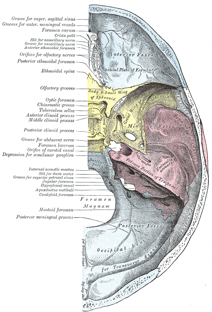 Base of the skull. Inner or cerebral surface.